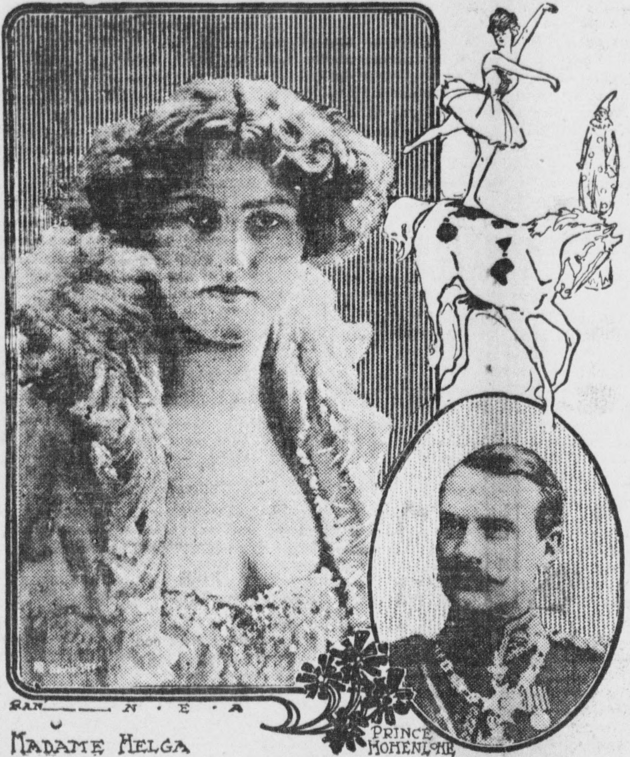 in 1904, the German aristocrat Hugo, of the house Hohenlohe, resigned his place in the line of succession so that he could marry circus performer Madame Helga.